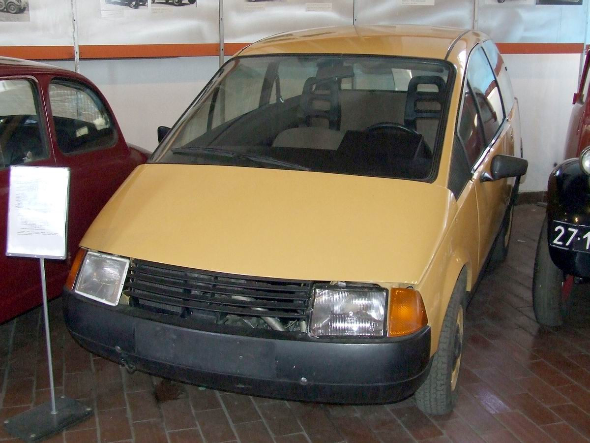 Polish Beskid 106 car from 1987